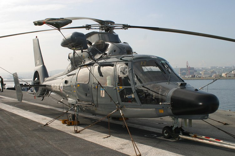 Dauphin rescue helicopter on the deck of the Charles de Gaulle carrier